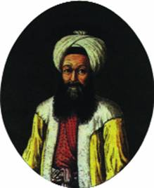 Portrait of Giritli Ali Aziz Efendi, turkish diplomat (ambassador in Prussia 1796 and again in 1797/98) and novelist.